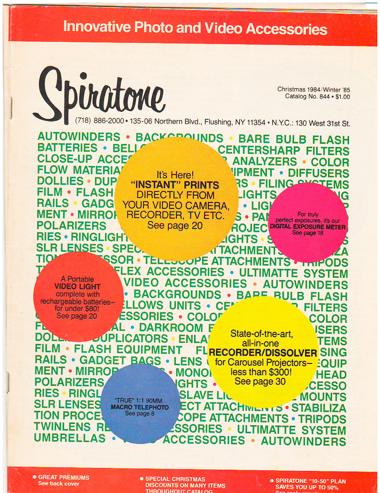 Spiratone catalog from 1984. This was published in the US between 1978 and 1989 without a copyright notice, so it is in the public domain.